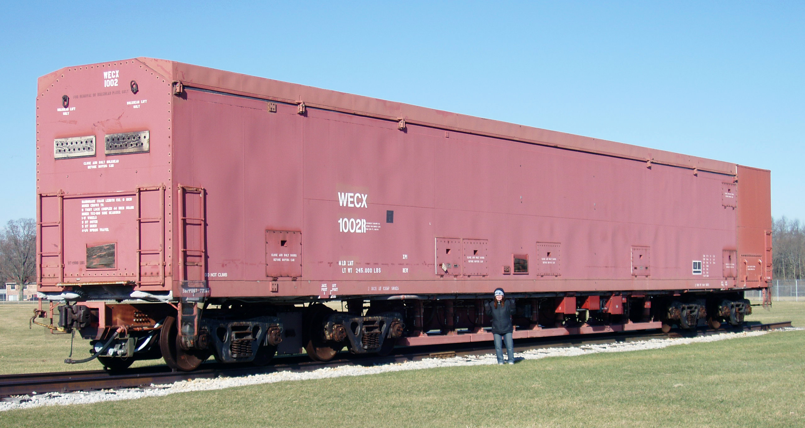 This 26,5 meter railcar, painted as an ordinary Westinghouse railcar (one of the contractors), was a prototype built to carry and launch a single, nuclear-tipped LGM-118A Peacekeeper Inter-Continental Ballistic Missile. As part of former U.S. President Ronald Reagan's Peacekeeper Rail Garrison Deployment System, two of these cars plus two engines, two security, a fuel, a launch control, and a maintenance car would make up a complete train - one of 25 trains operated by the U.S. Air Force Strategic Air Command. Once deployed, they could roam the entire country until ordered to launch or stand down. This prototype railcar was retired to the National Museum of the United States Air Force in Dayton, Ohio in 1994.